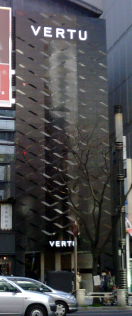 VERTU SHOP In Ginza Japan .